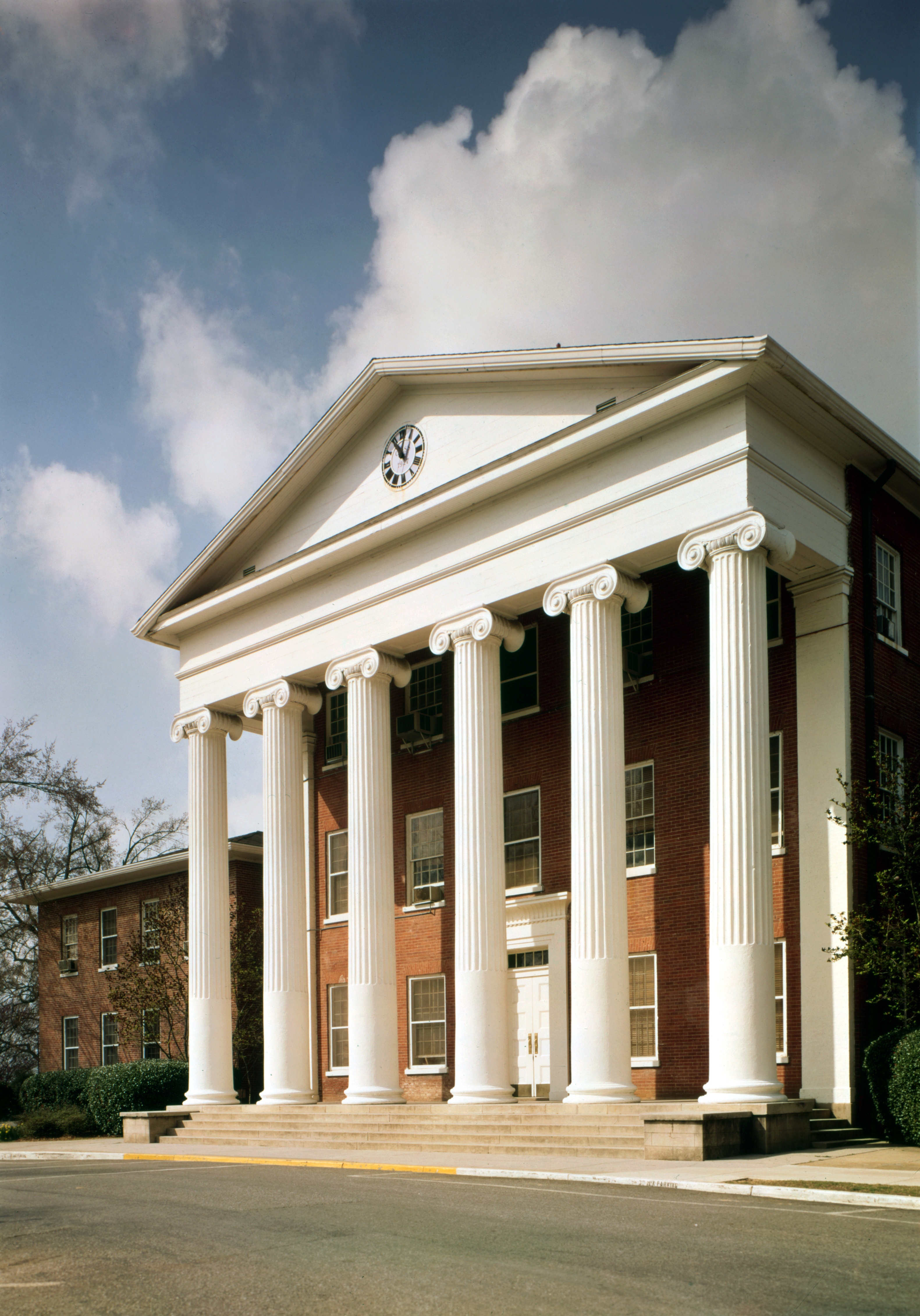 University of Mississippi, Lyceum Building, University Circle, Oxford, Lafayette County, Mississippi Image courtesy of Historic American Buildings Survey—HABS.